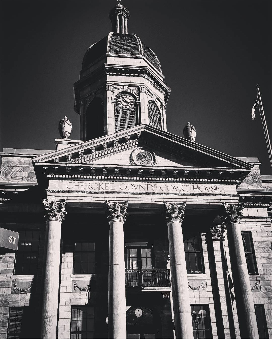 Photo taken by me in 2016.